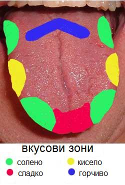 Geschmack